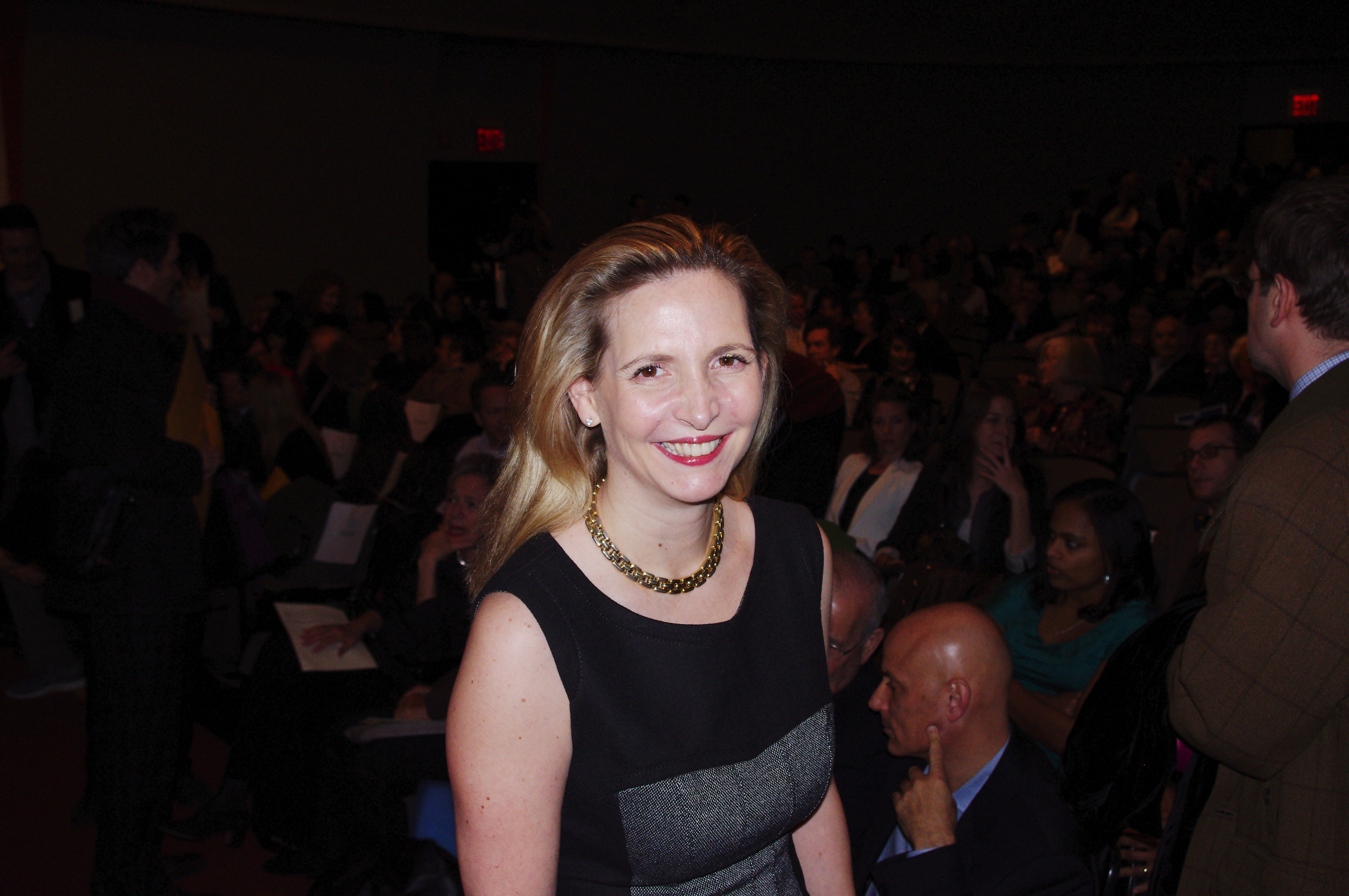 Poet Amanda Foreman at the National Book Critics Circle Awards for the 2011 publishing year.